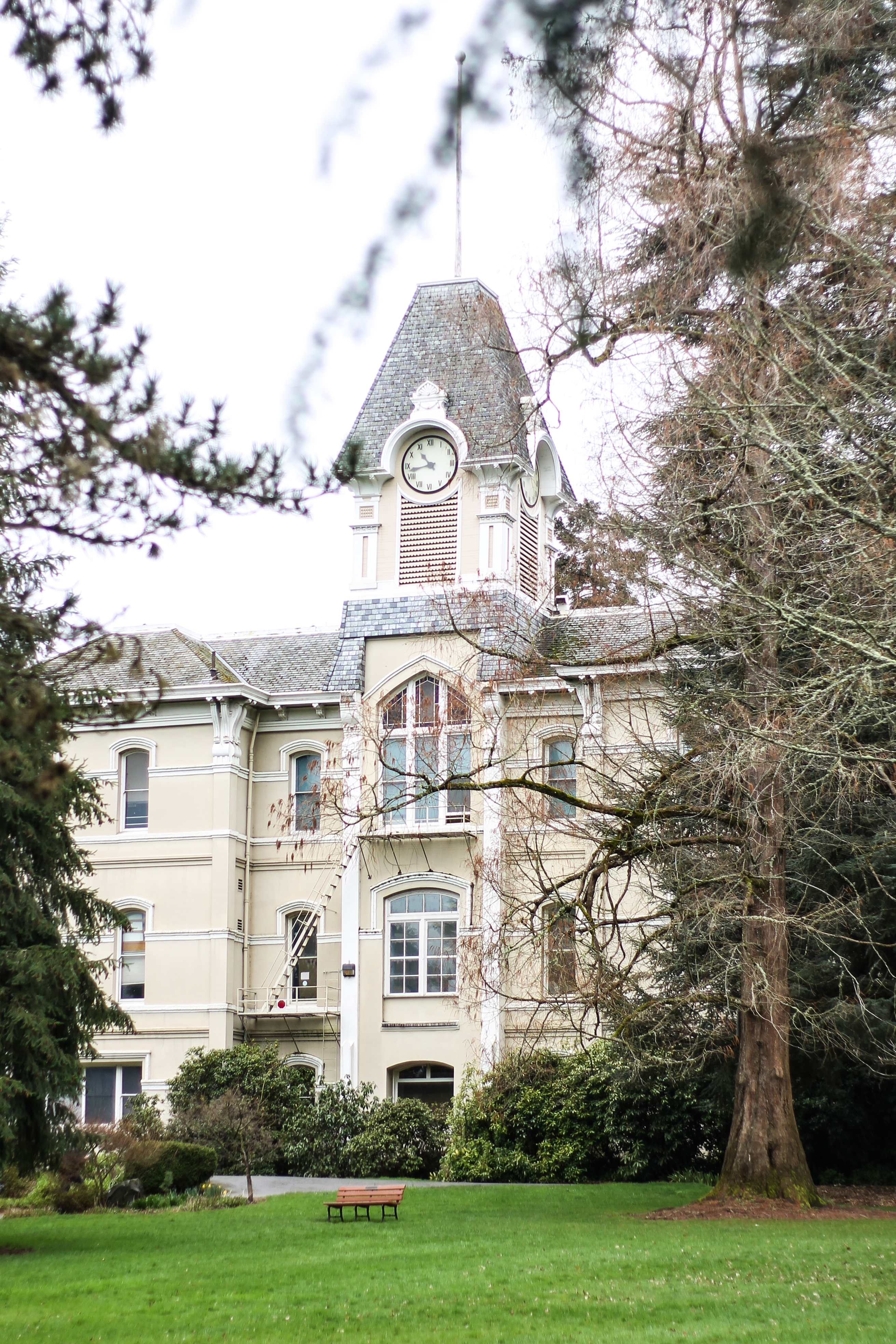 The front of Benton Hall